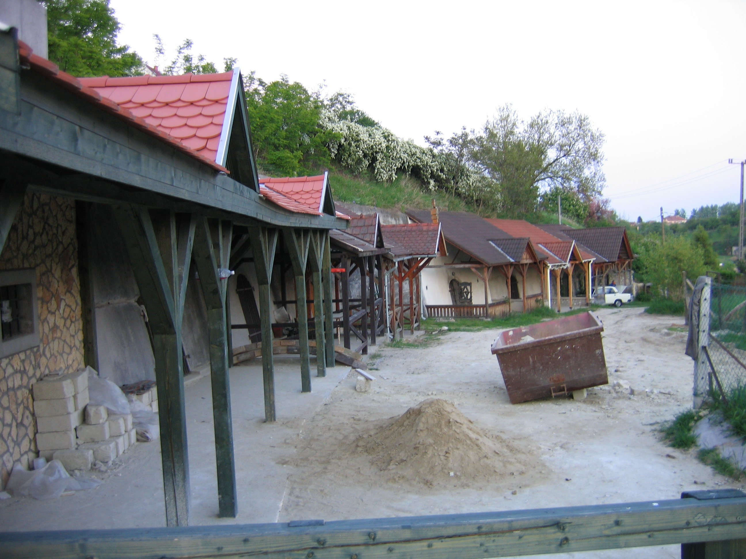 Wine cellars in the Valley of Beautiful Women (Szépasszonyvölgy), outside of Eger, Hungary